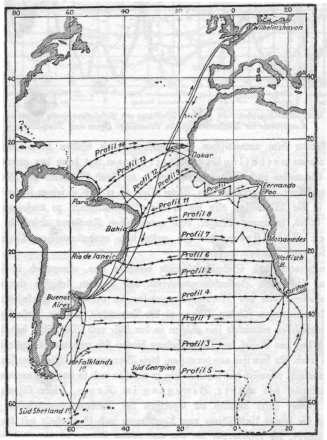 Original plan for the Deutschen Atlantische Expeditio 1925-27